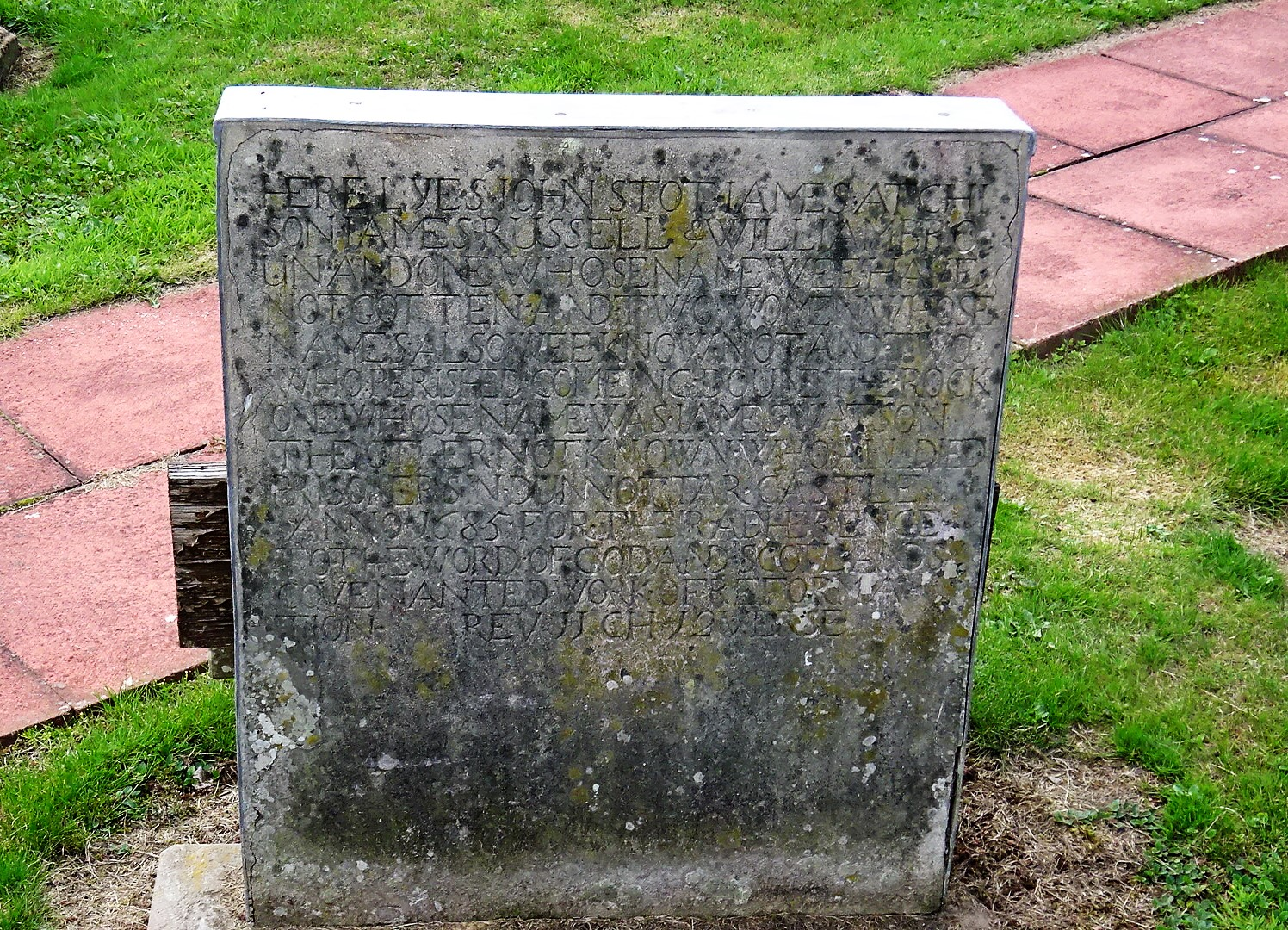 The Covenanters Stone, Dunnottar Church, Stonehaven. This is the actual stone is said to have been the inspiration for Sir Walter Scott in his novel 'Old Mortality' when he watched Robert Patterson restore the lettering on it.